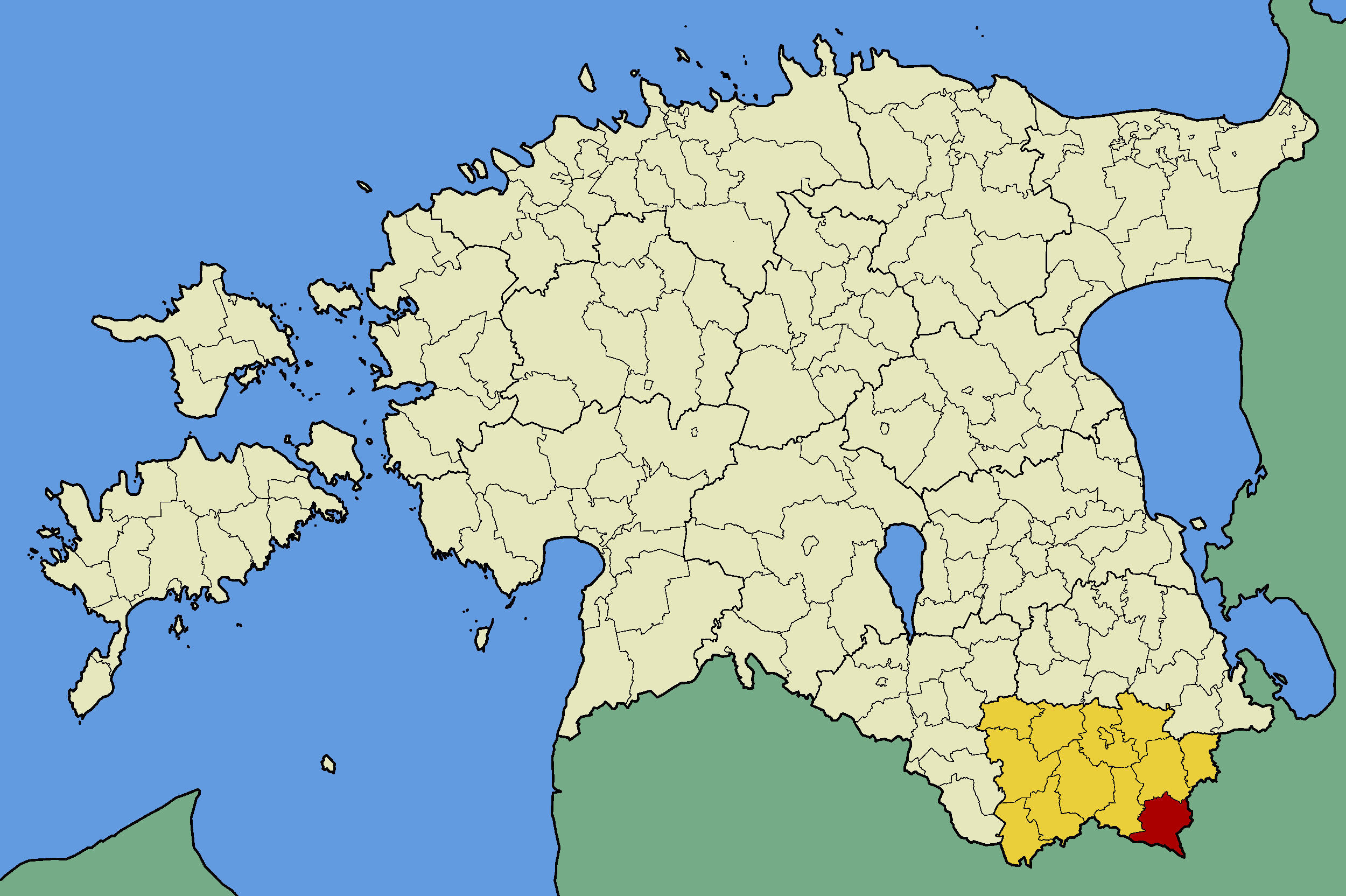 Map of Estonia with borders of municipalities (parishes). Võru county and Misso municipality emphasized.